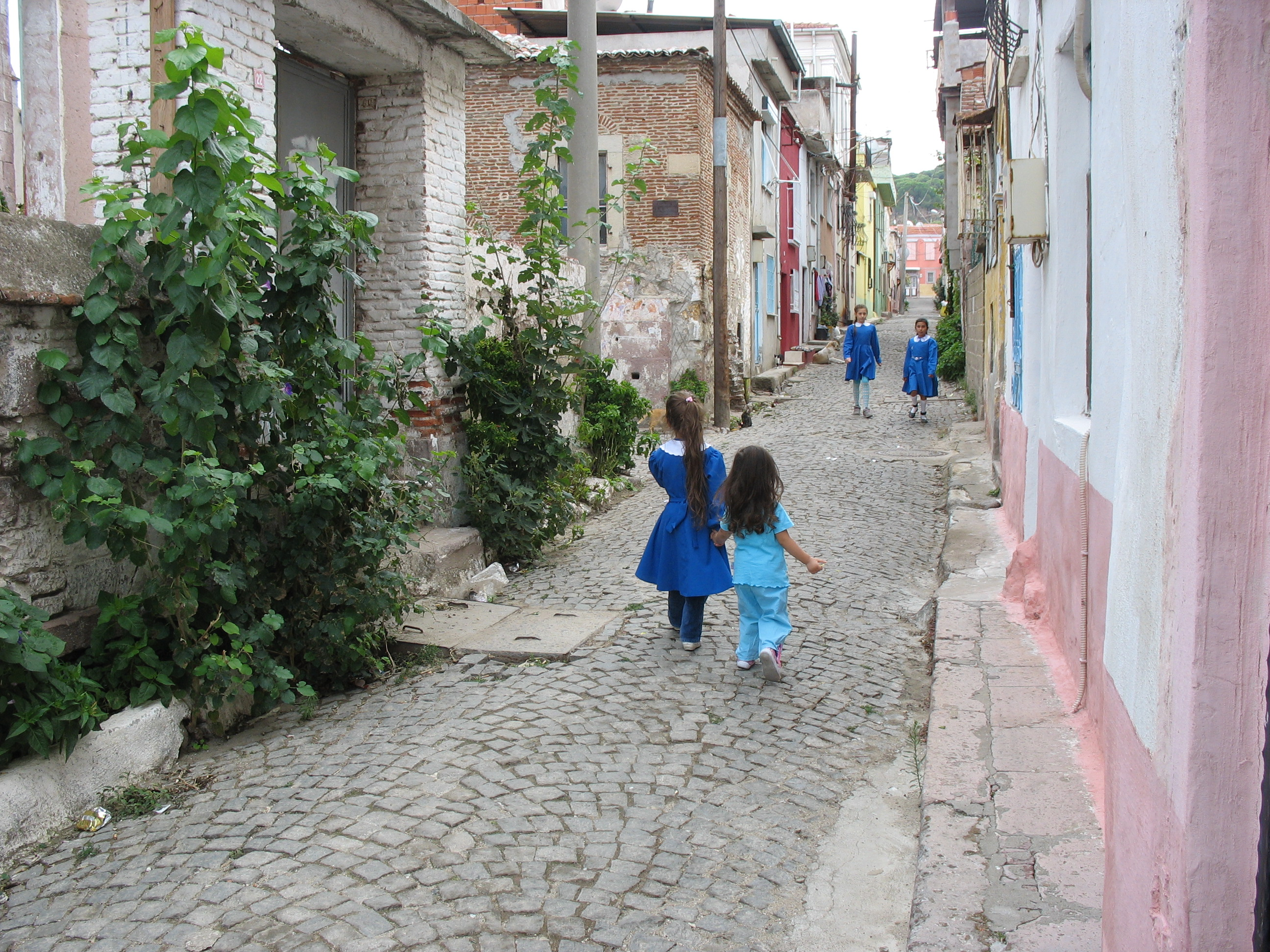 ayvalik